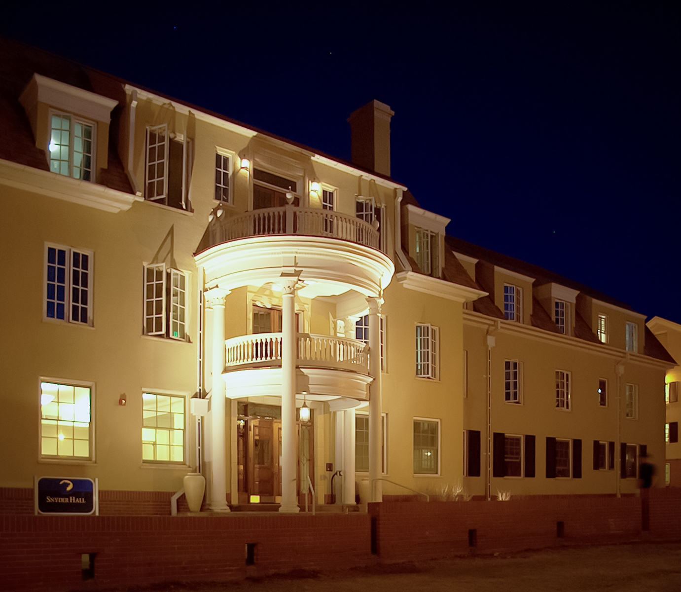 UNC's Snyder Hall, a dorm on Central Campus.